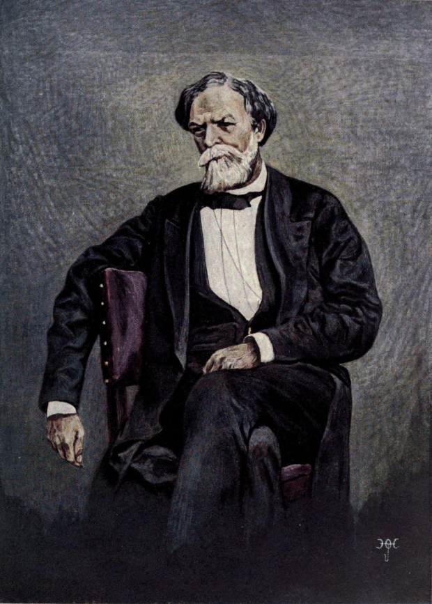 Painted Portrait of Joseph Jenkins Roberts